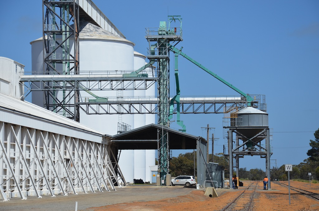 Old and new silos, Yealering, Western Australia. From the north and railway line side of silos.